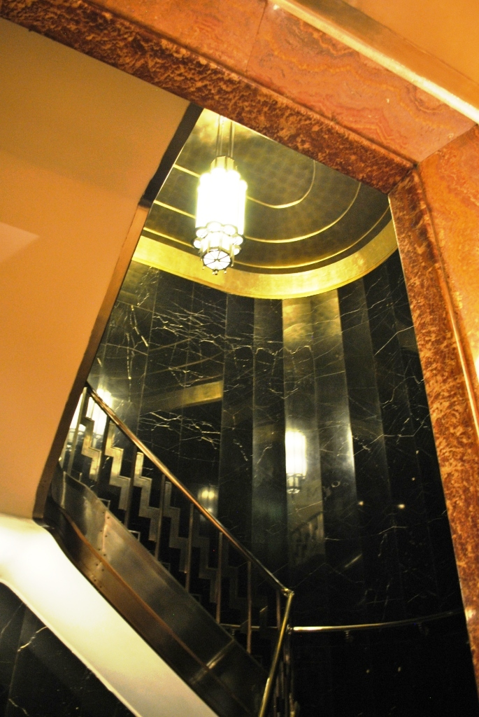 Chrysler Building